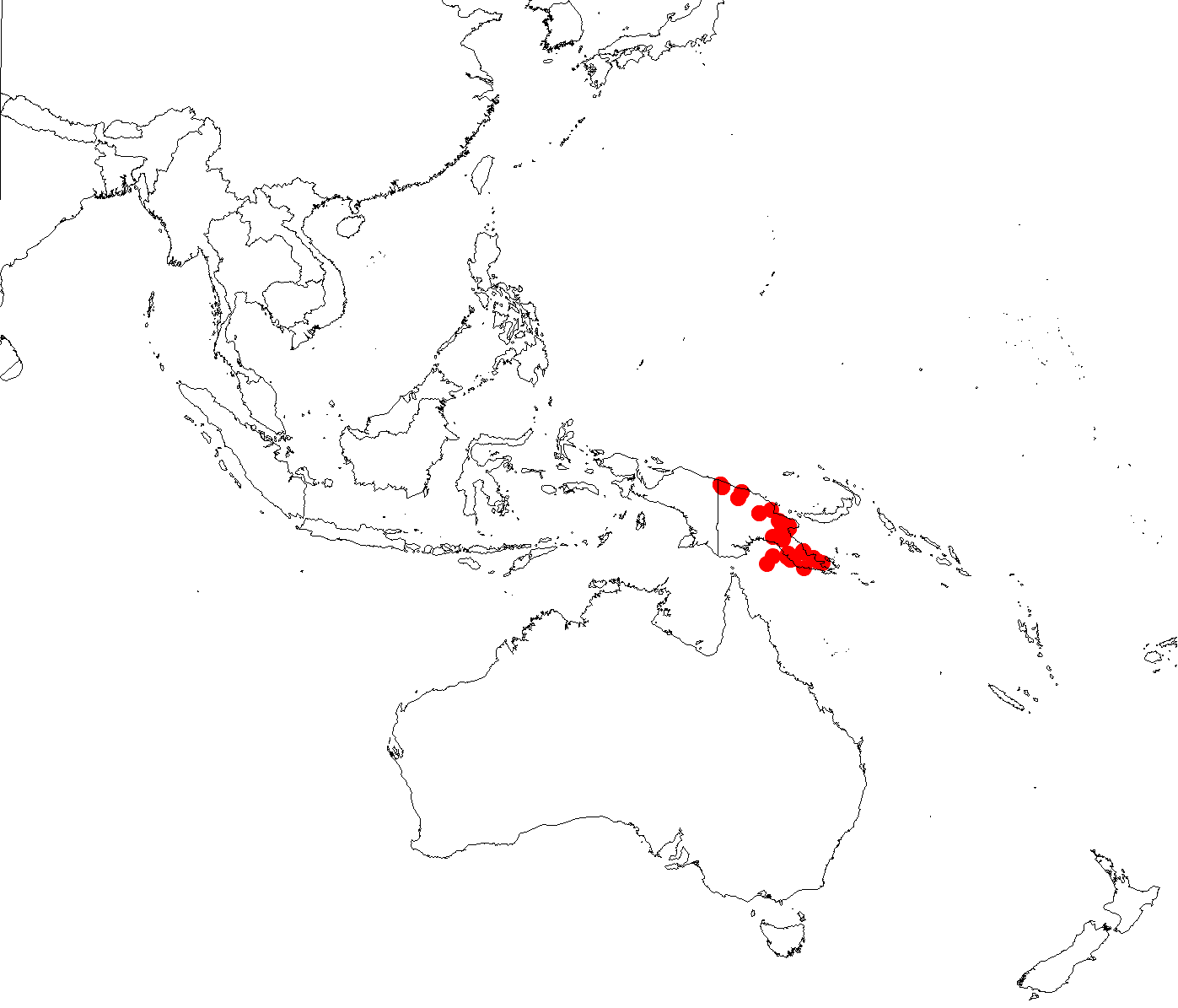 Parsonsia oligantha Occurrence data downloaded from (21 December 2018) GBIF Occurrence Download